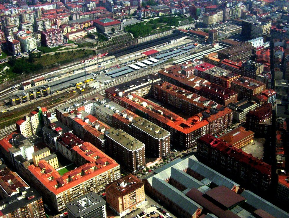 Railway station of Santander (Cantabria, Spain)